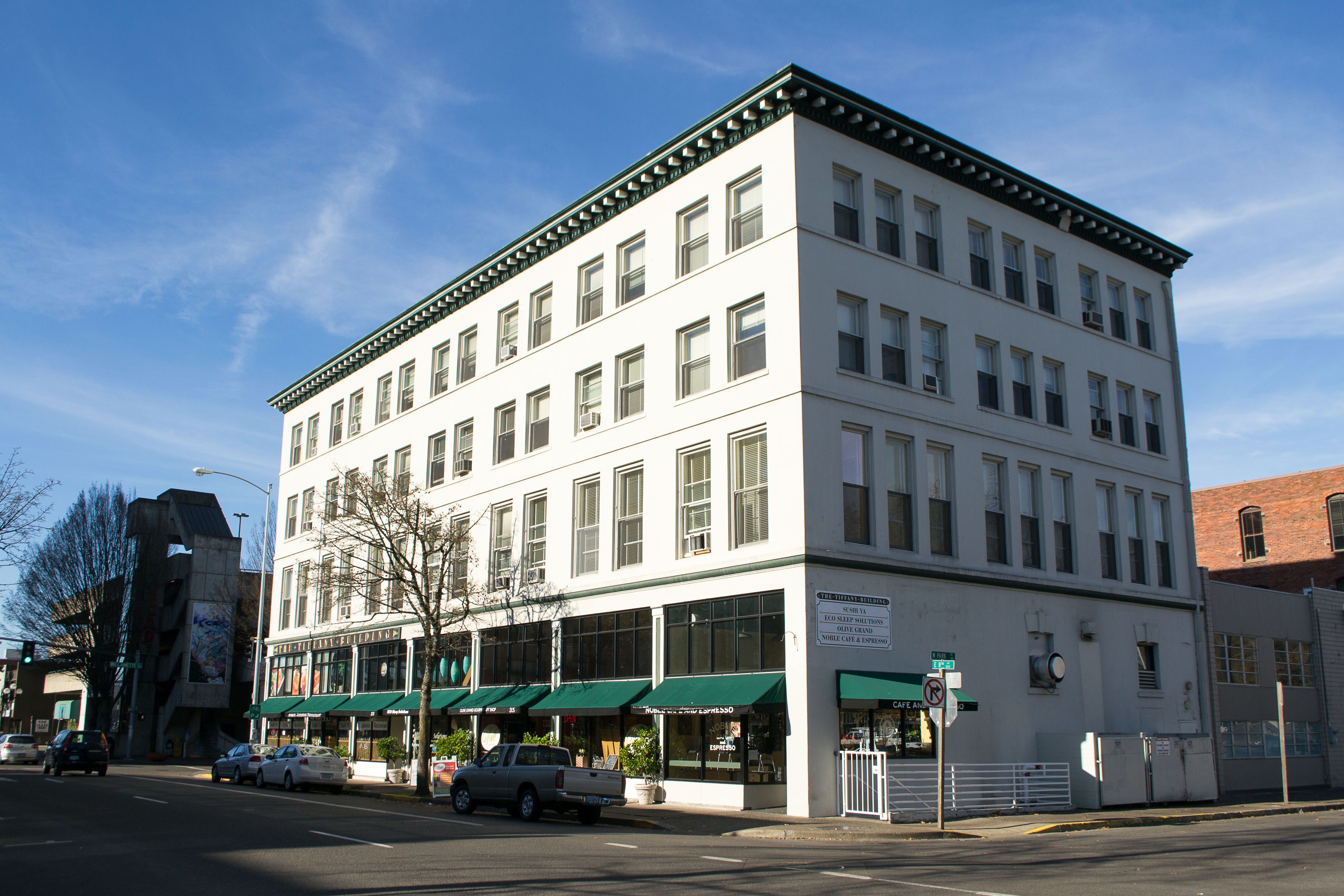 A view of the McMorran and Washburne Building in Eugene, Oregon